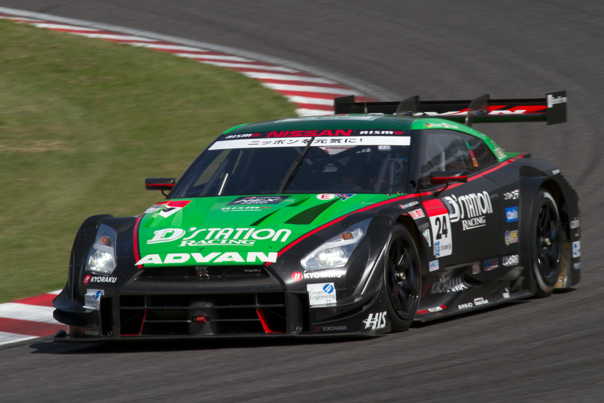 Super GT 2014 Rd.6 Suzuka 1000km: Daiki Sasaki (Kondo Racing)